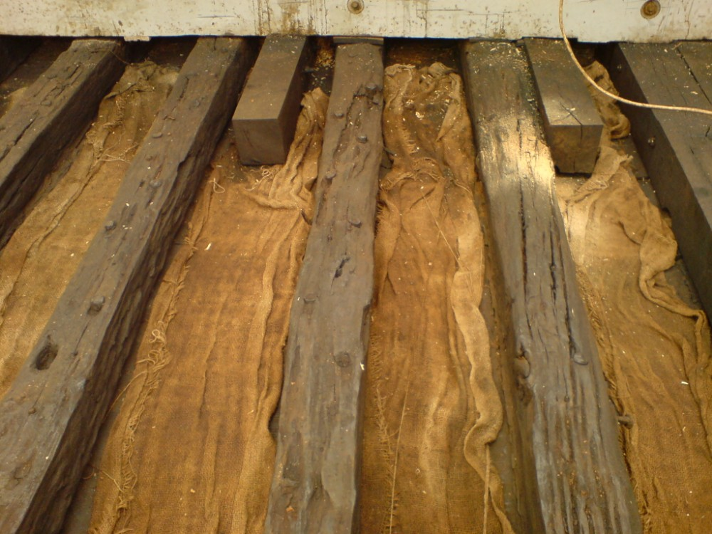 These timbers are some of the sailing barge Thalatta's original floors. ("Floors" are timber "beams" in the bottom of a wooden boat.)